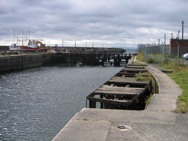 No 3 Dock at Methil, Fife, was authorised in 1907 and opened in 1913. It was given its own entrance off the Firth of Forth, with a channel 120 feet wide in which were lock gates 80 feet wide. The area of the basin was 16¼ acres and it was originally provided with nine hoists for shipping coal. With the run-down of the Fife coalfield it was closed to commercial traffic. The entrance channel and lock gates, the latter appearing rather the worse for wear, are seen here from a corner of the dock.